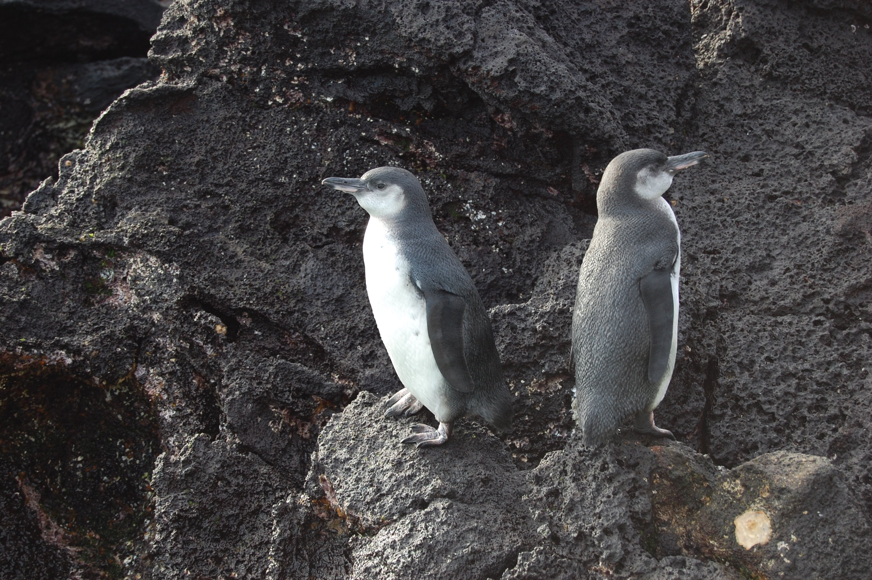 Galapagos penguins. Ecuador, Galapagos Islands.